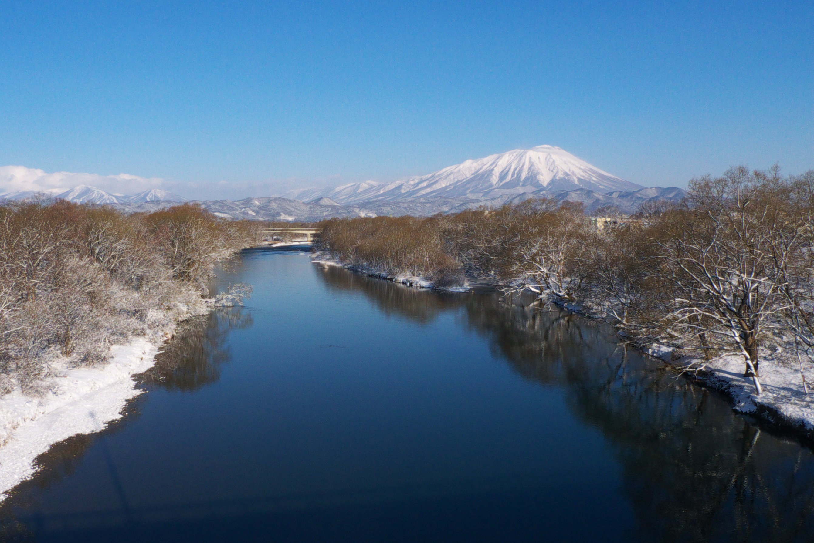 Shizukuishi River and Mount Iwate seen from Mori-no-ohashi bridge on the Iwate Prefectural Road Route 293